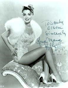 Anna Maria Alberghetti.jpg